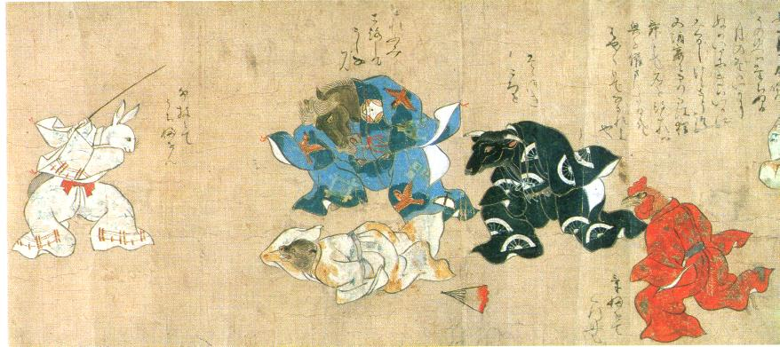 Translation: 12 species battle picture scrolls (animal Taihei description) - artist obscure, Muromachi period